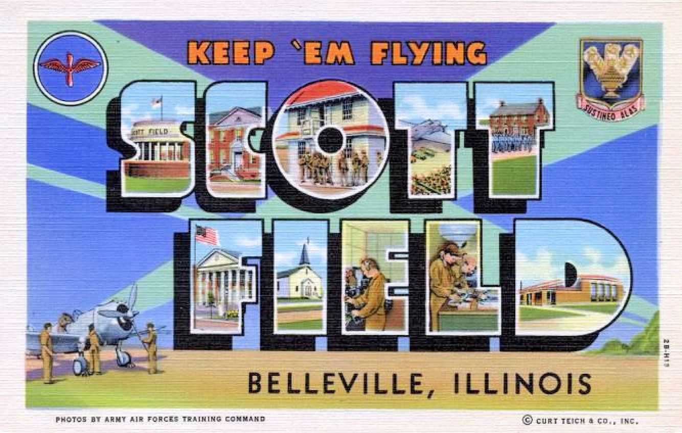 Army Air Forces - Postcard - Scott Field Illinois